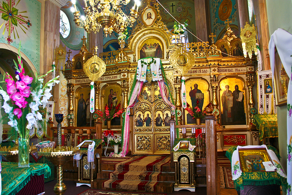 The interior from Church of Lutsk Orthodox Fellowship of True Cross